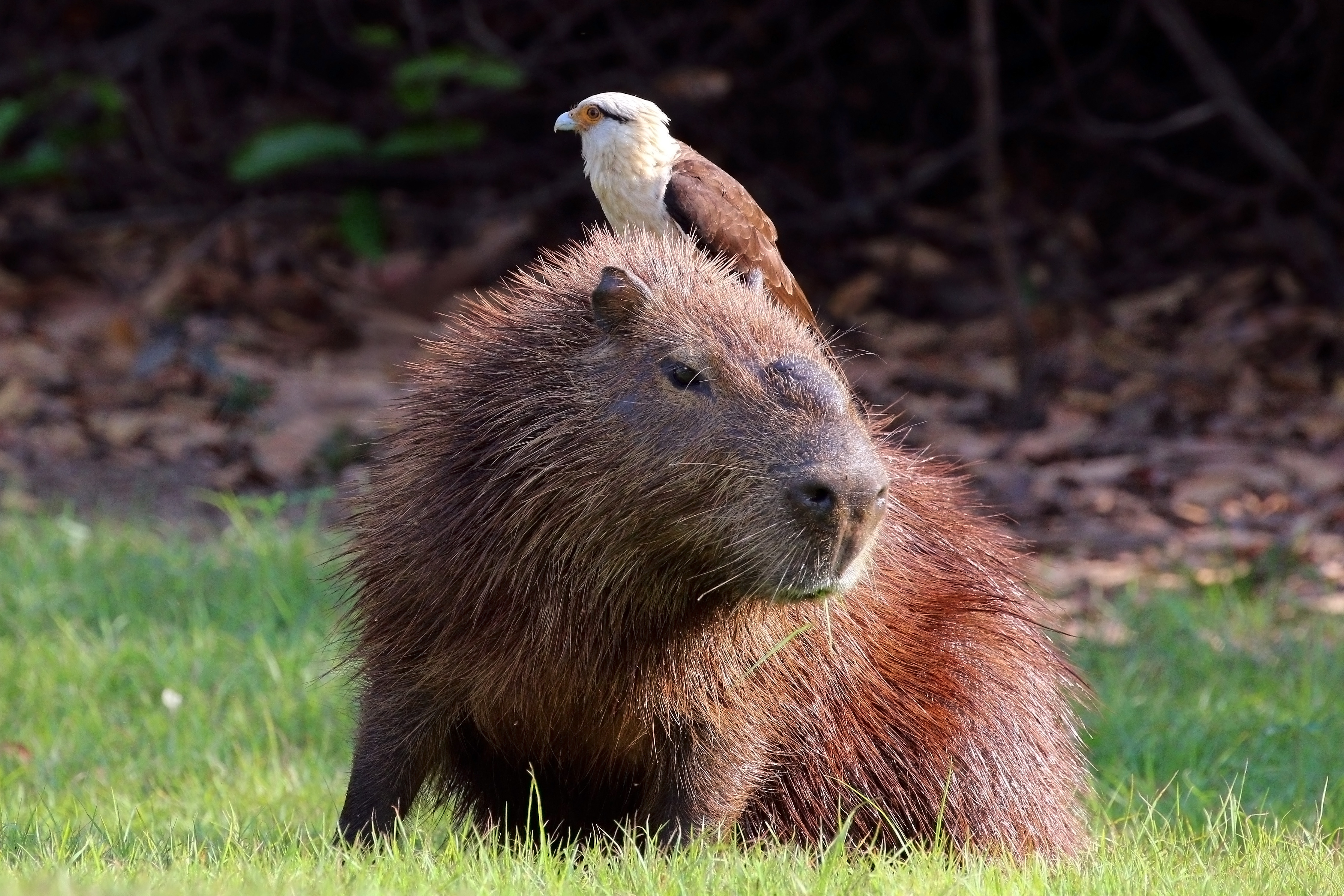 Yellow-headed caracara (Milvago chimachima) on male capybara (Hydrochoeris hydrochaeris), the Pantanal, Brazil